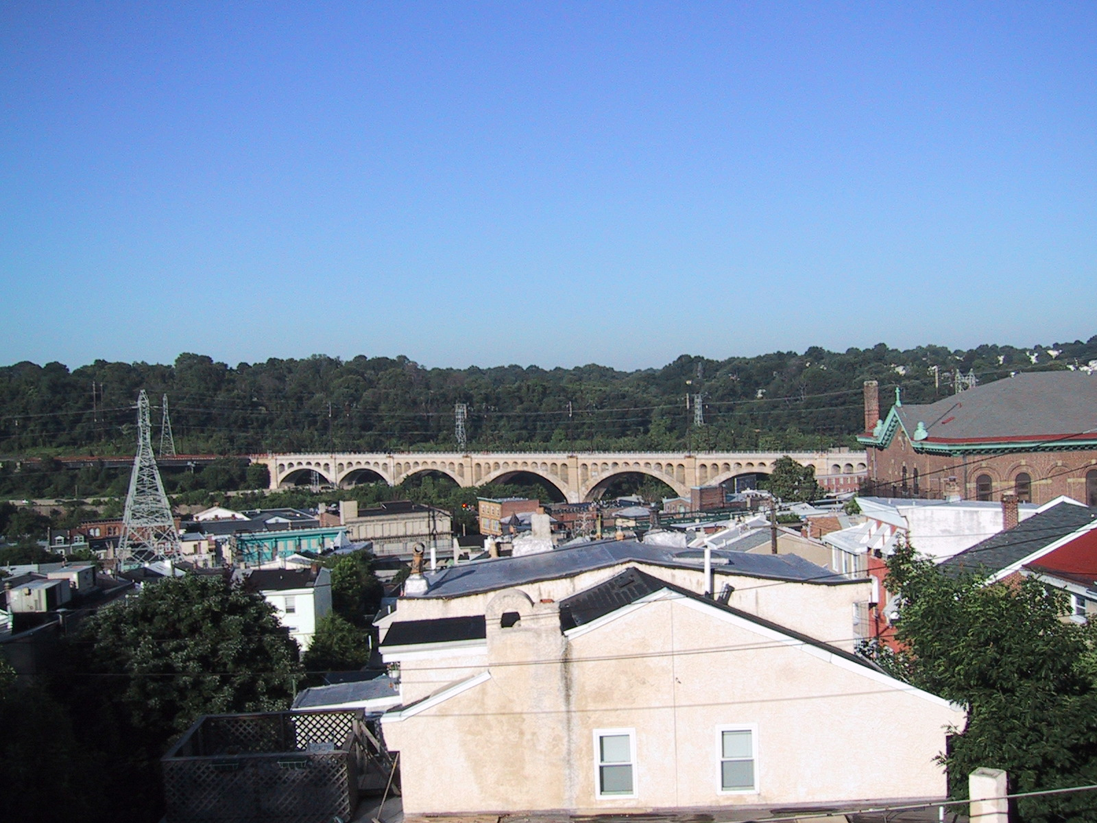 Manayunk from the Silverwood cliff.